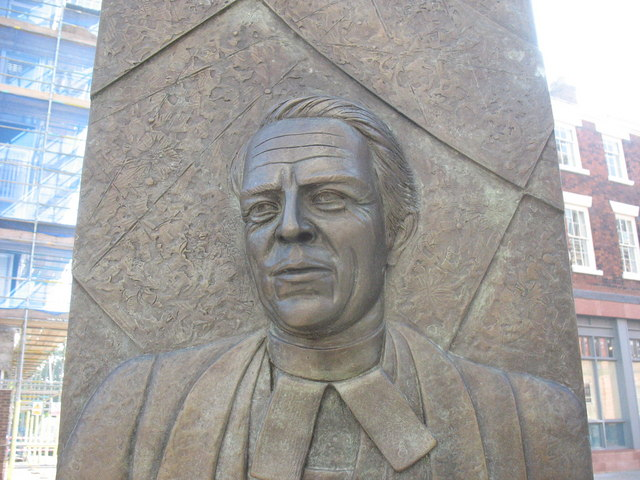 Detail from the statue of David Shepherd, the cricketer and former Anglican Bishop of Liverpool